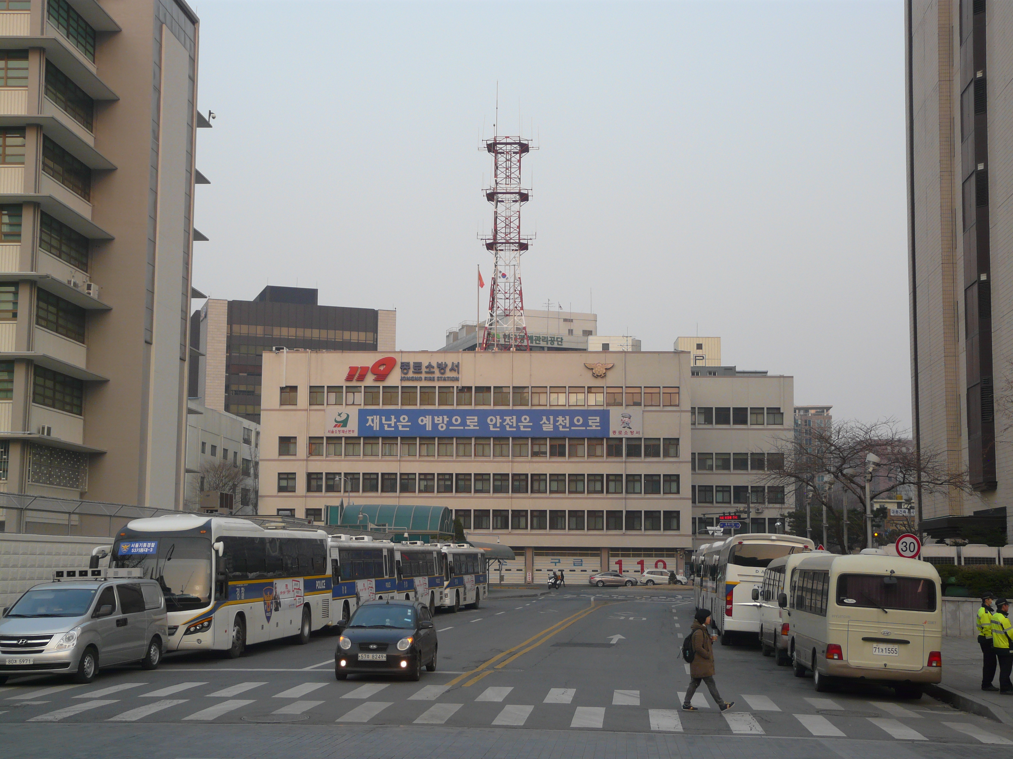 Jongno fire station, Seoul